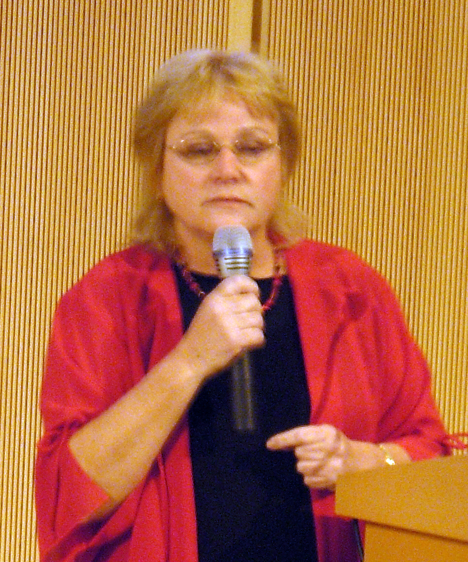 Archeologist Eilat Mazar speaking at the Thirty Fourth Achaeological Conference in Israel.